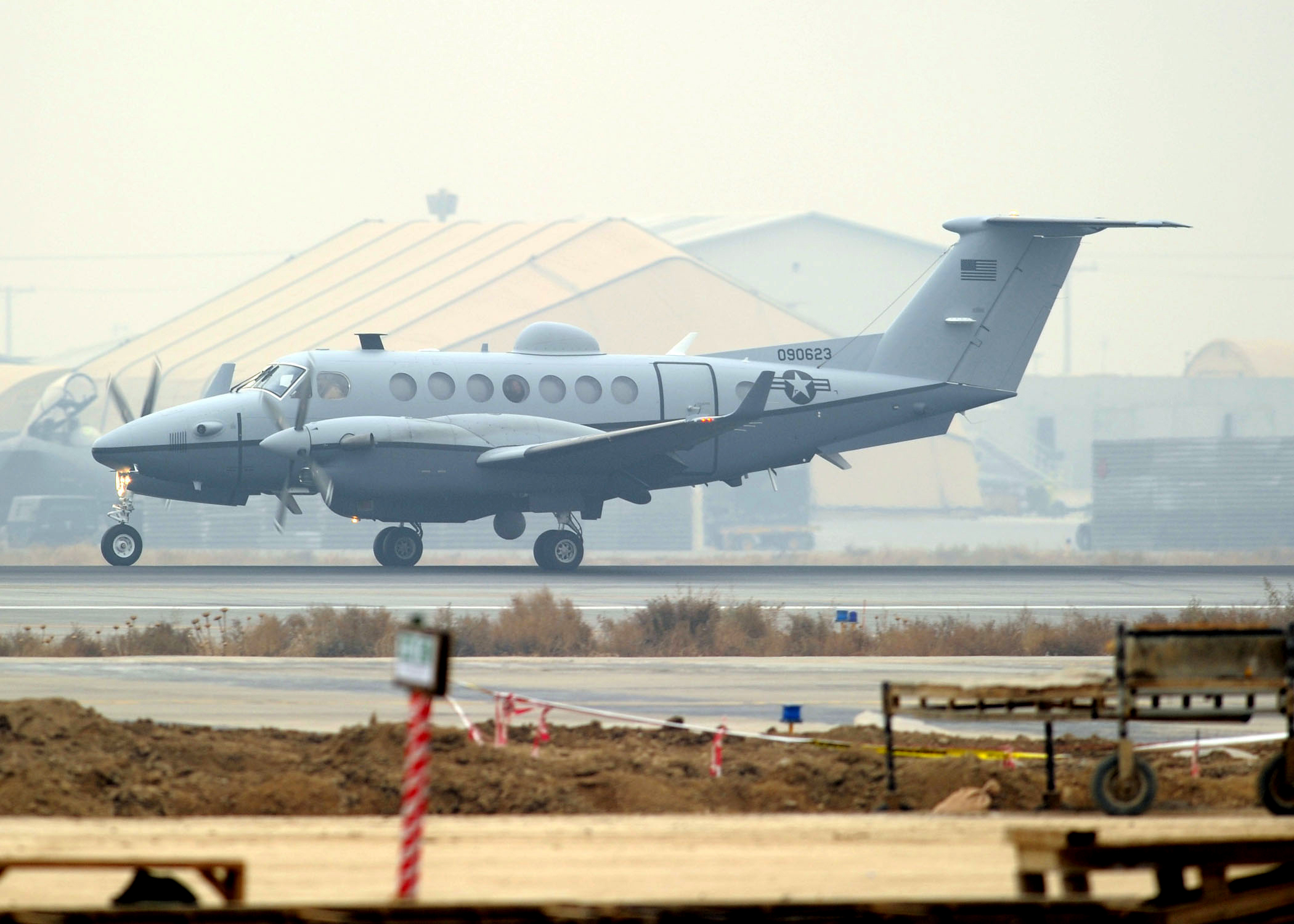 December 28, 2009 - BAGRAM AIRFIELD, Afghanistan (AFNS) -- Airmen welcome the first Air Force MC-12 to be based in Afghanistan. The MC-12 aircraft, tail number 090623, was the first of an undisclosed number of aircraft for the new 4th Expeditionary Reconnaissance Squadron.